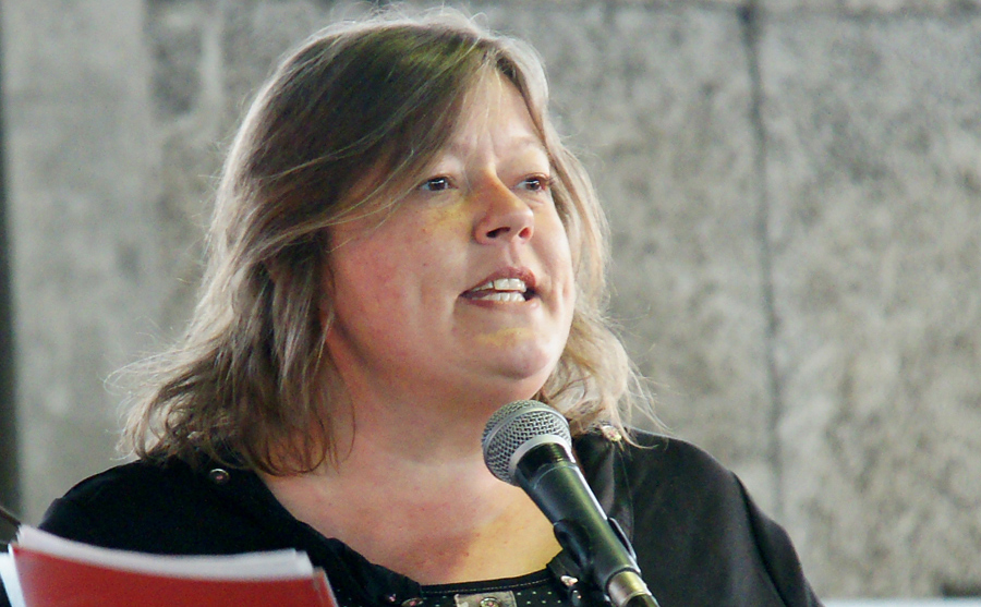 Mette Gjerskov, politician and MP from Roskilde, Denmark (Social Democrats)